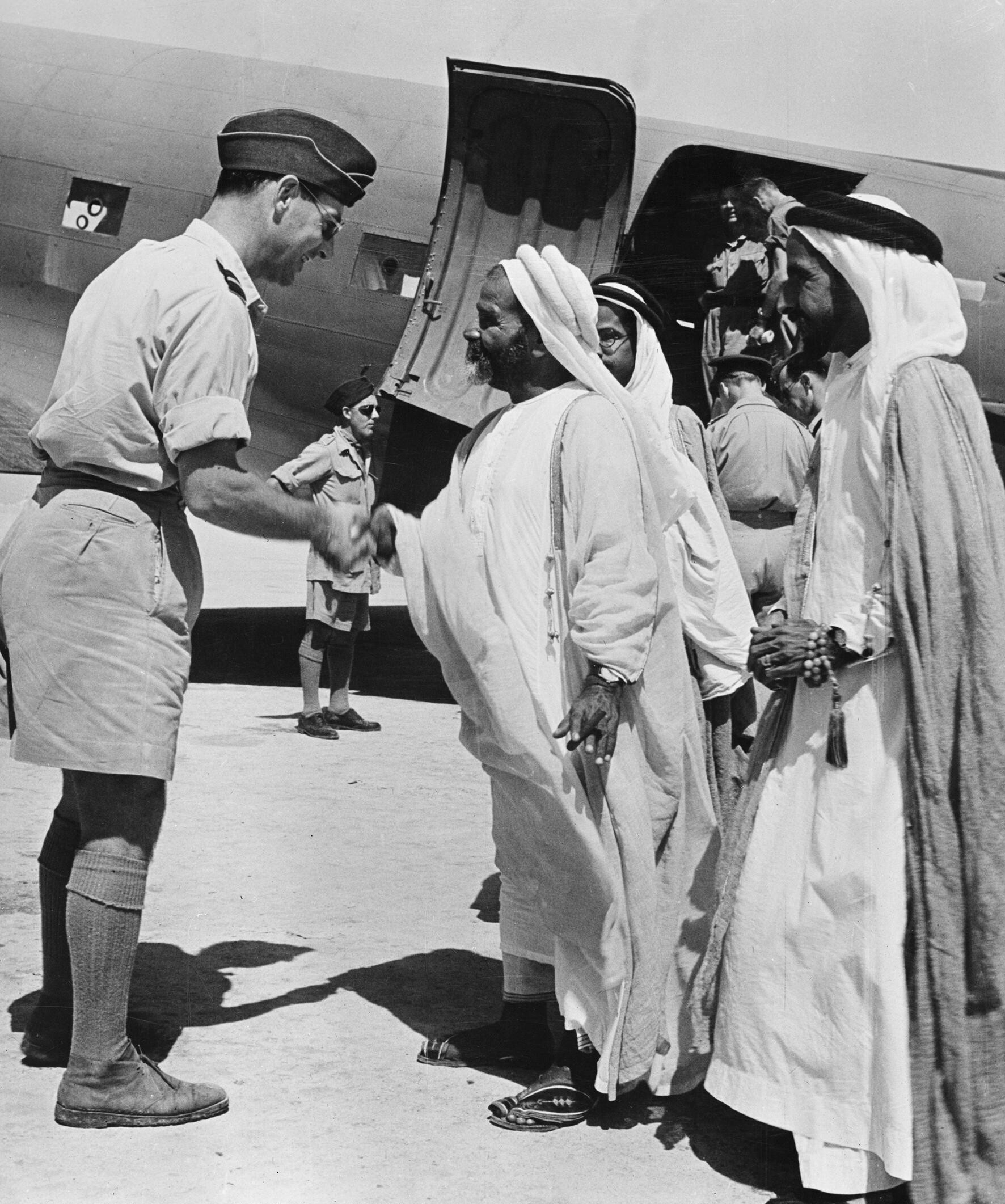 Air Commodore Whitney Straight, Air Officer Commanding RAF Transport Command, Middle East, saying goodbye to the Sheikh Khalifa, cousin of the ruler of Bahrain, and his two sons, 18 January 1945. Air Commodore Whitney Straight, CBE, MC, DFC, Air Officer Commanding R.A.F. Transport Command, Middle East, saying goodbye to the Sheikh Khalifa, cousin of the ruler of Bahrain, and his two sons, during a tour made by the A.O.C. to staging posts in the Persian Gulf. Sheikh Khalifa has practically adopted the R.A.F. at Bahrein, and is a frequent visitor to the station, often providing luxuries for the men.